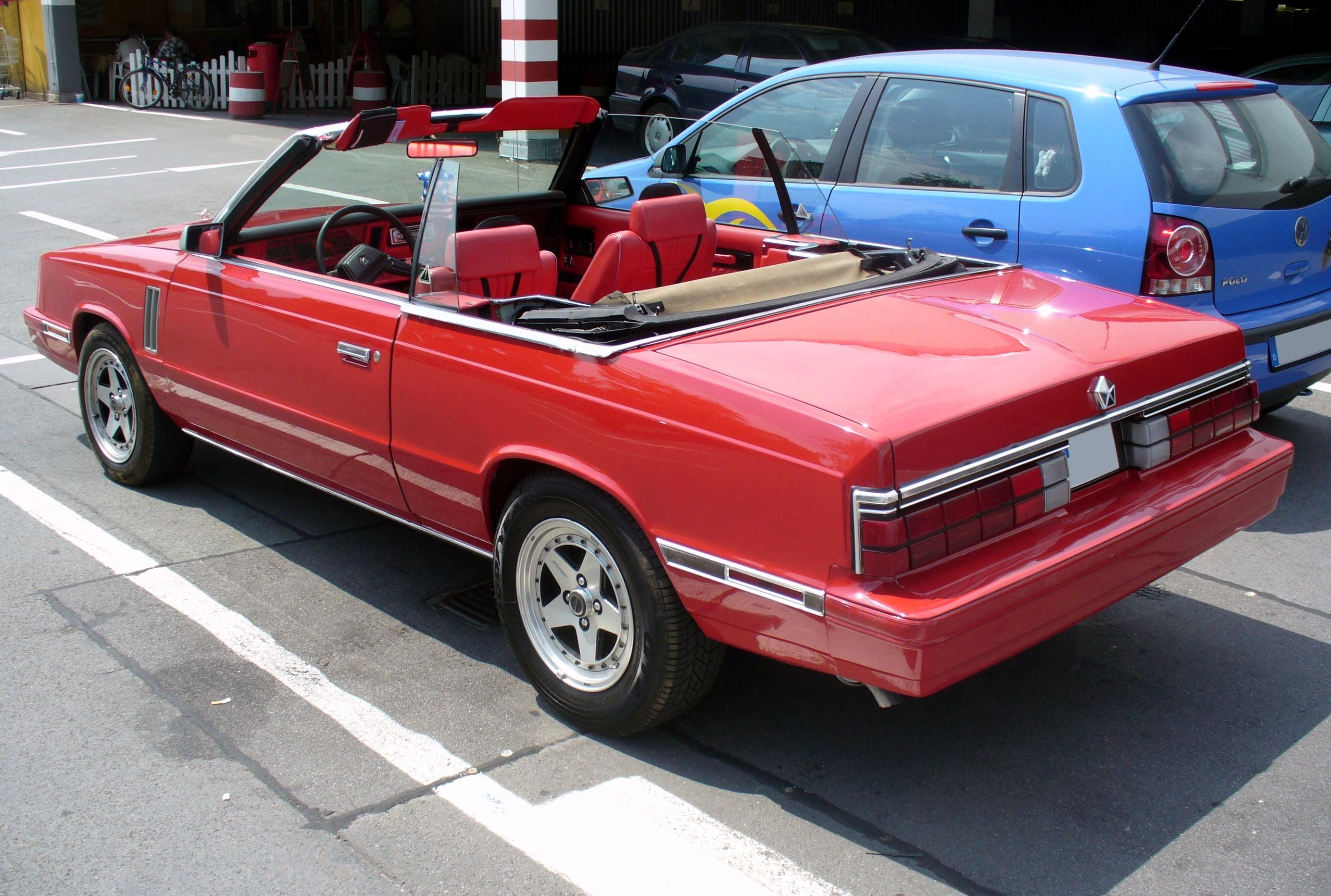 Chrysler LeBaron Cabrio